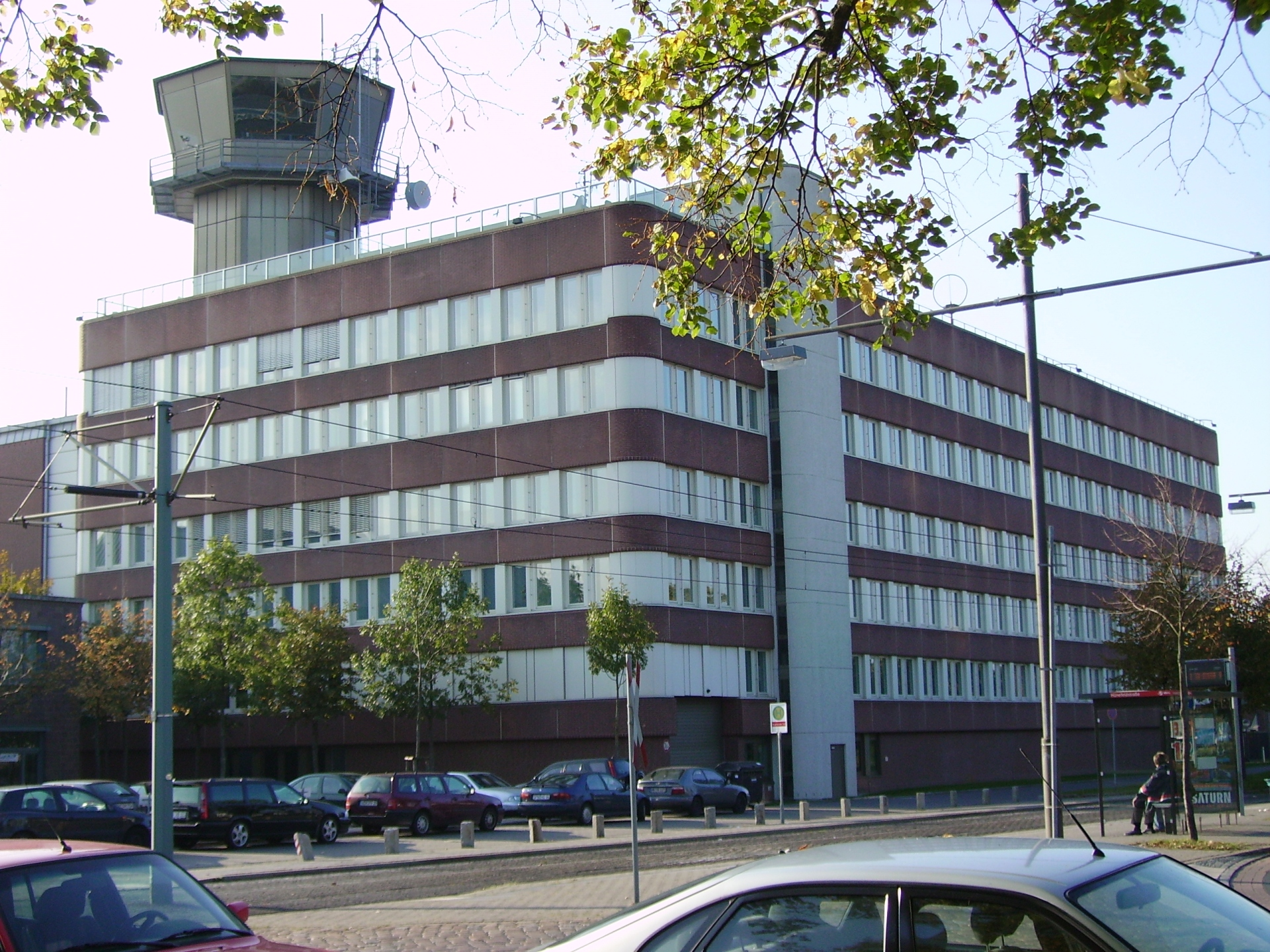 A building of the German Air Navigation Service (DFS Deutsche Flugsicherung) in Bremen, Germany